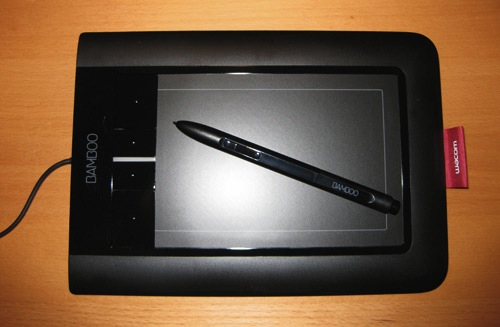 Wacom Bamboo Pen